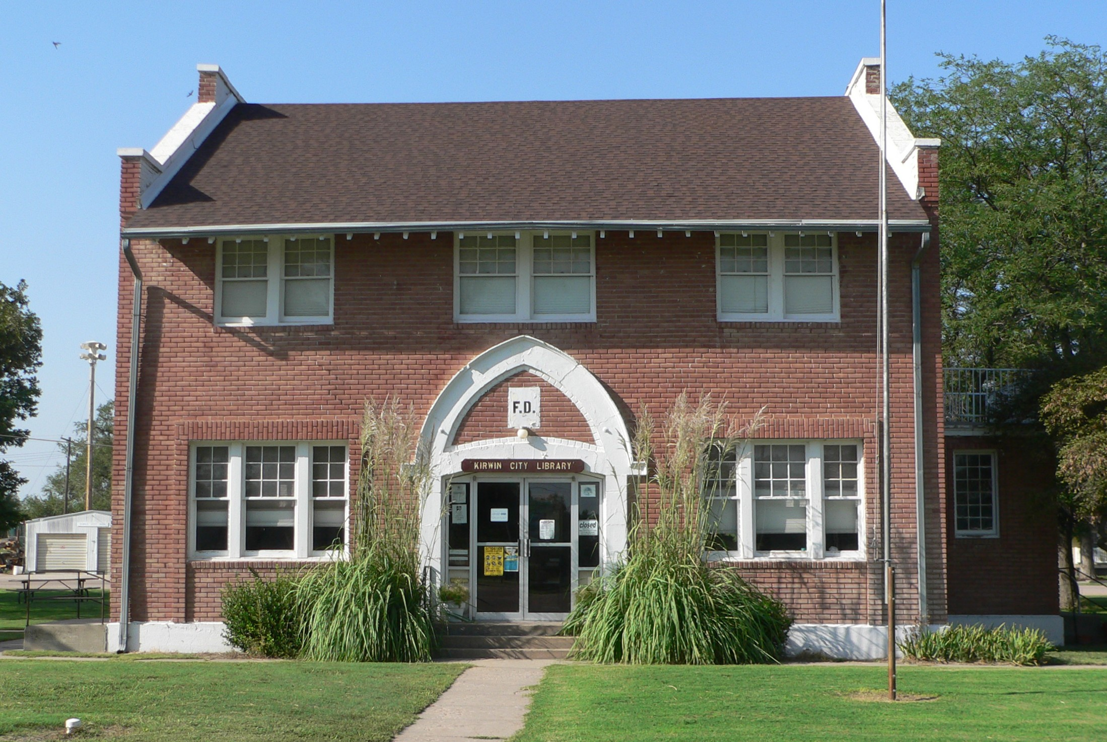 City hall building, located in center square of Kirwin, Kansas; seen from the south.